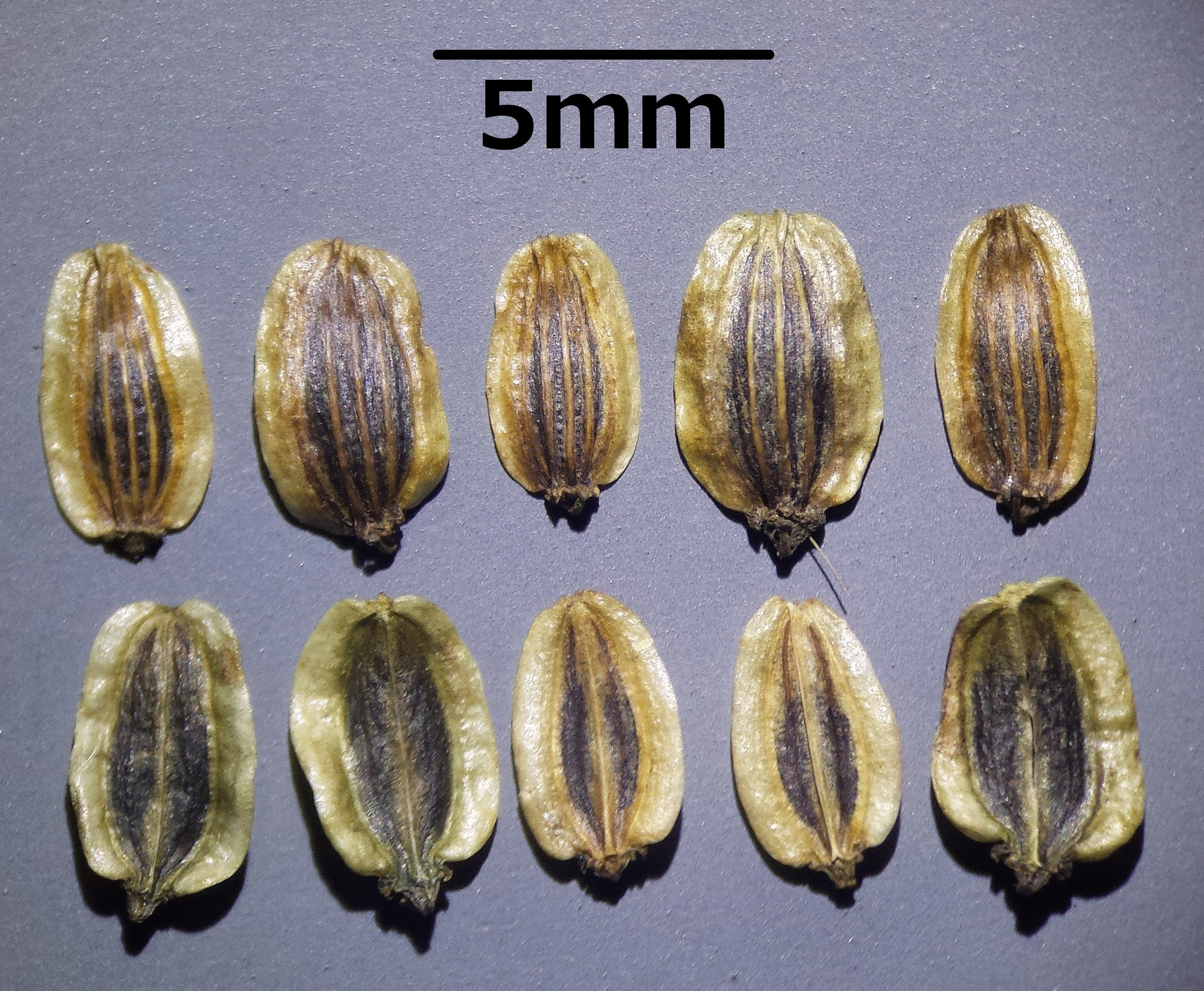 Fruits Taxon: Peucedanum alsaticum (sensu Fischer et al. EfÖLS 2008) Location: near Niederhollabrunn, district Korneuburg, Lower Austria - ca. 330 m a.s.l. Habitat: semi-dry grassland beside a shrubbery